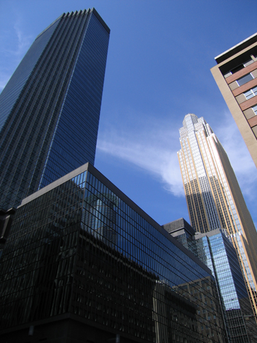 IDS Center, Wells Fargo, Minneapolis, Minnesota